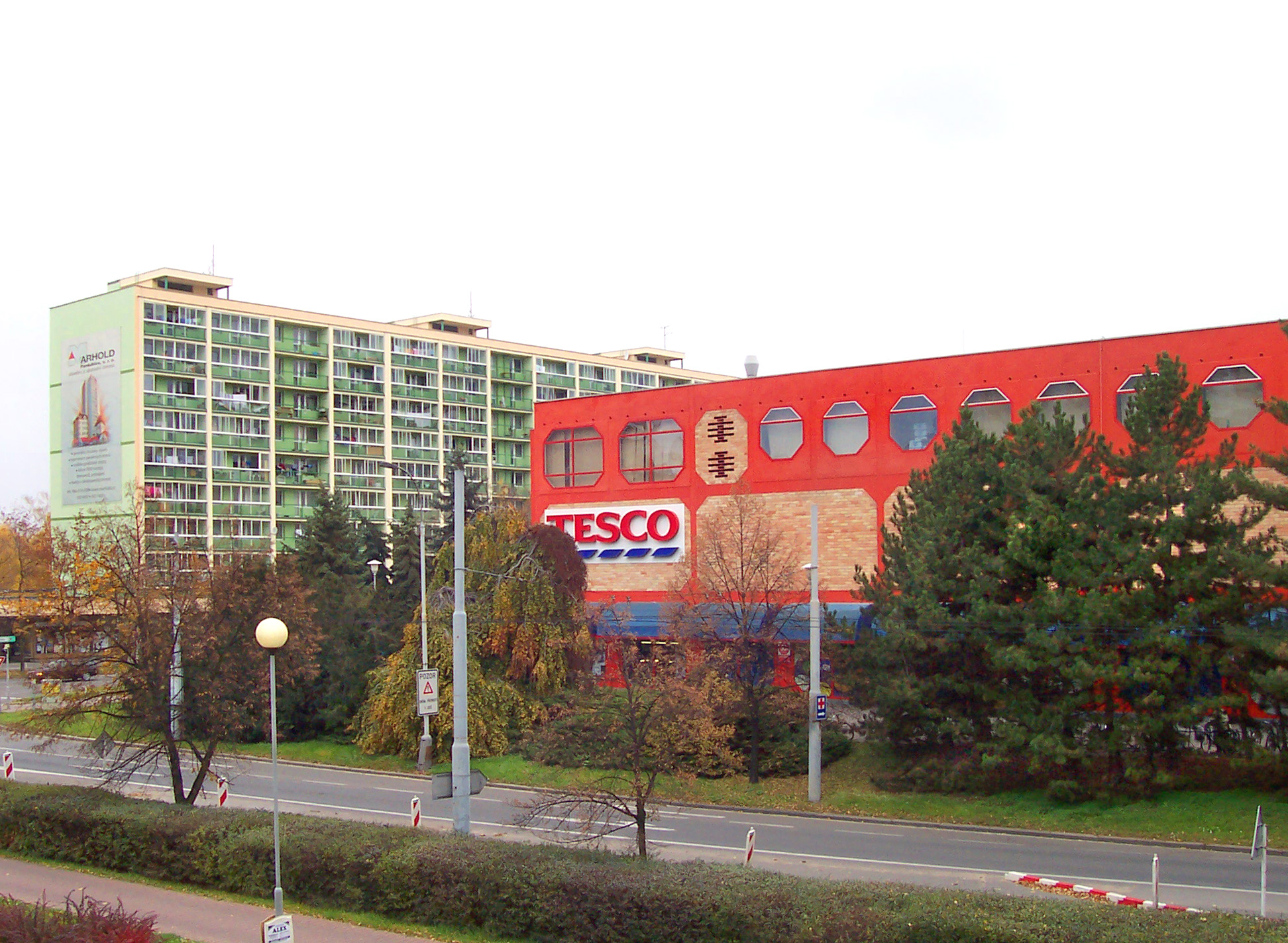 Tesco department store at Masarykovo square in Pardubice, Czech Republic